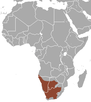 Meerkat (Suricata suricatta) range